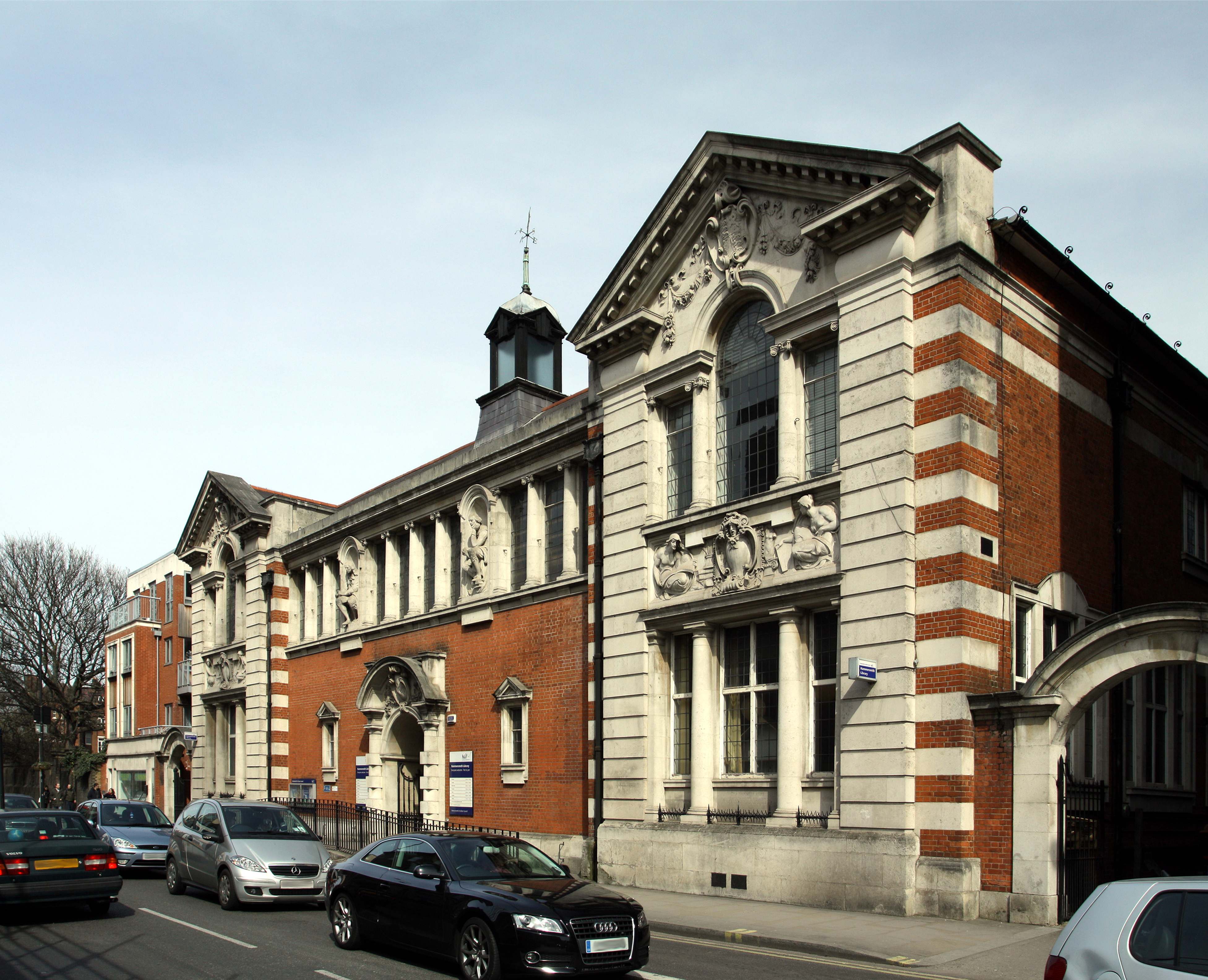 Hammersmith Library in the London Borough of Hammersmith and Fulham, Great Britain. The making of this file was supported by Wikimedia UK.